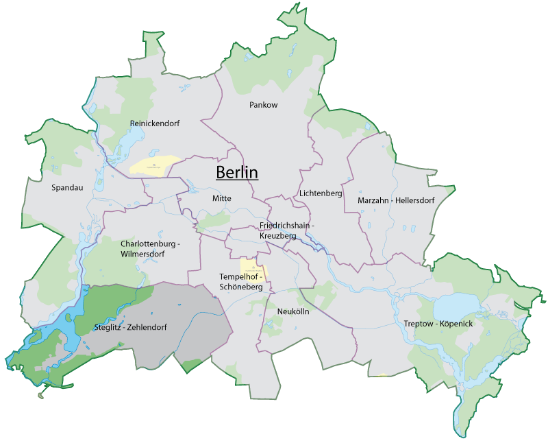 Author: Felix Hahn Source: Based on Water map of Berlin Description: Map of Berlin and its districts.